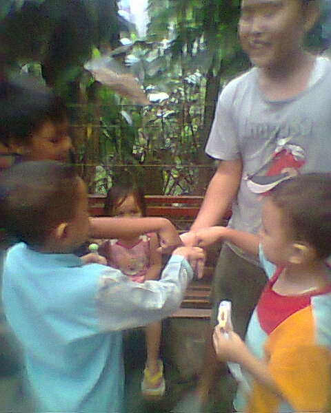 cingciripit